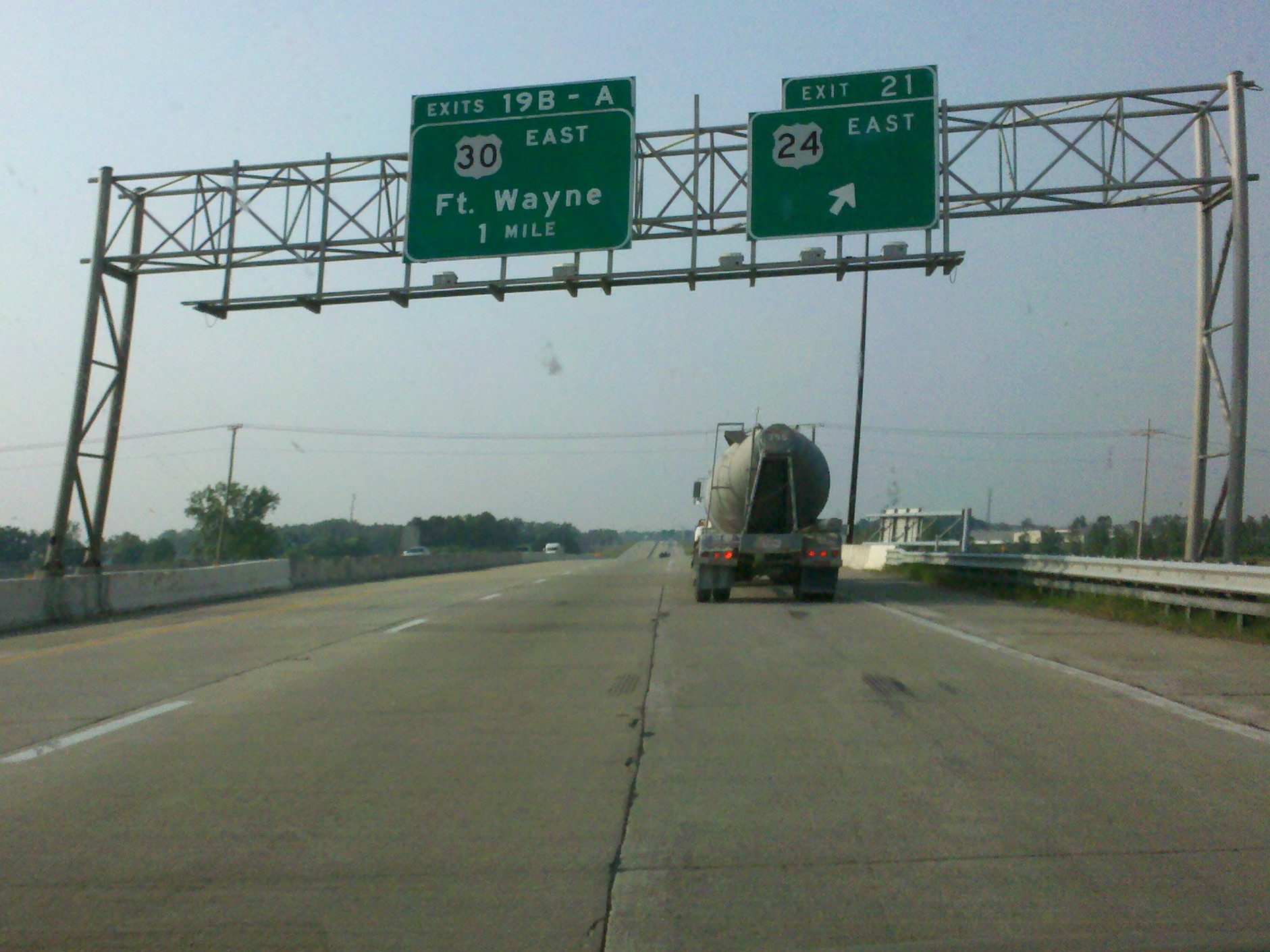 Existing exit sign for US Route 24 on southbound Interstate 469 in New Haven, Indiana